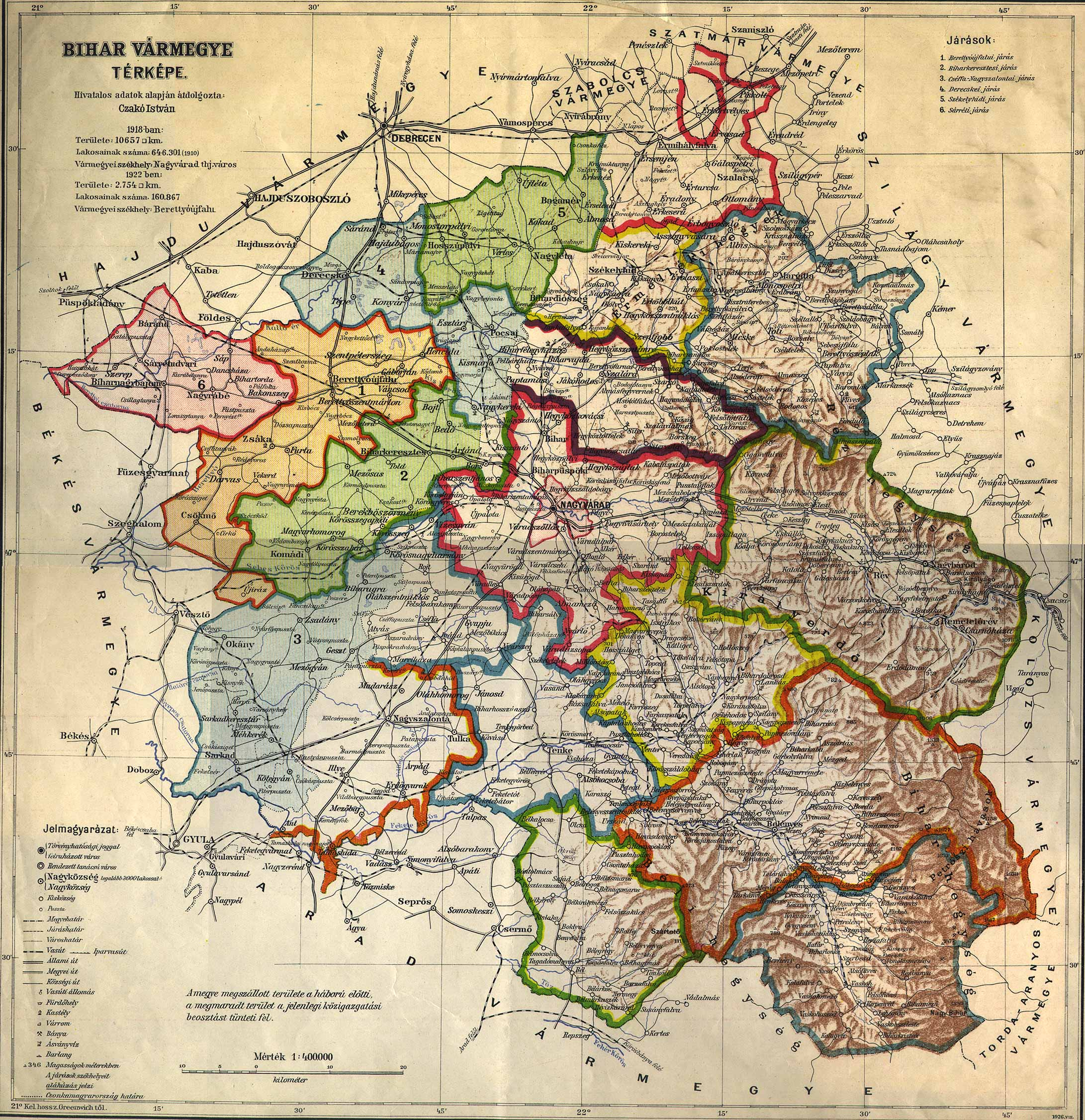 Administrative map of the county of Bihar in the Kingdom of Hungary